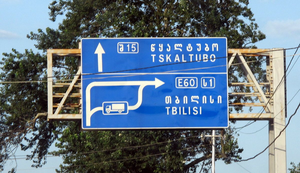 photos from georgia, as part of trip documented on